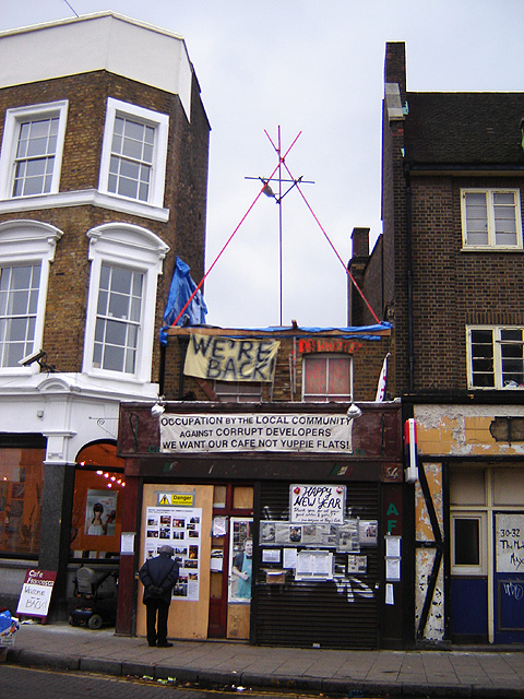 Café Francesca, Broadway Market, Hackney, London. Occupied by protesters against the redevelopment and gentrification of the area. 10 January 2006. Photographer: Fin Fahey